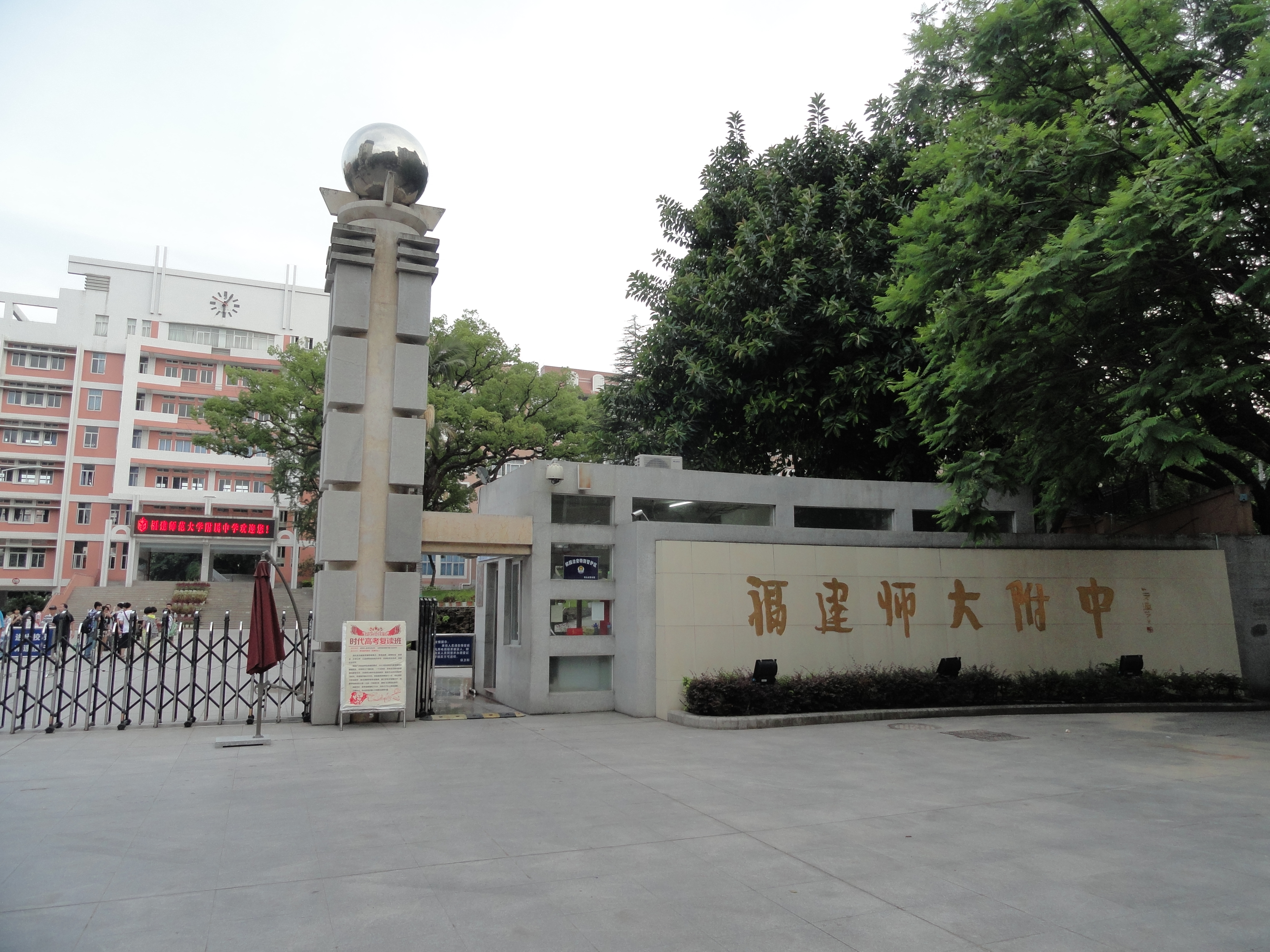 The gate of the Affiliated High School of Fujian Normal University